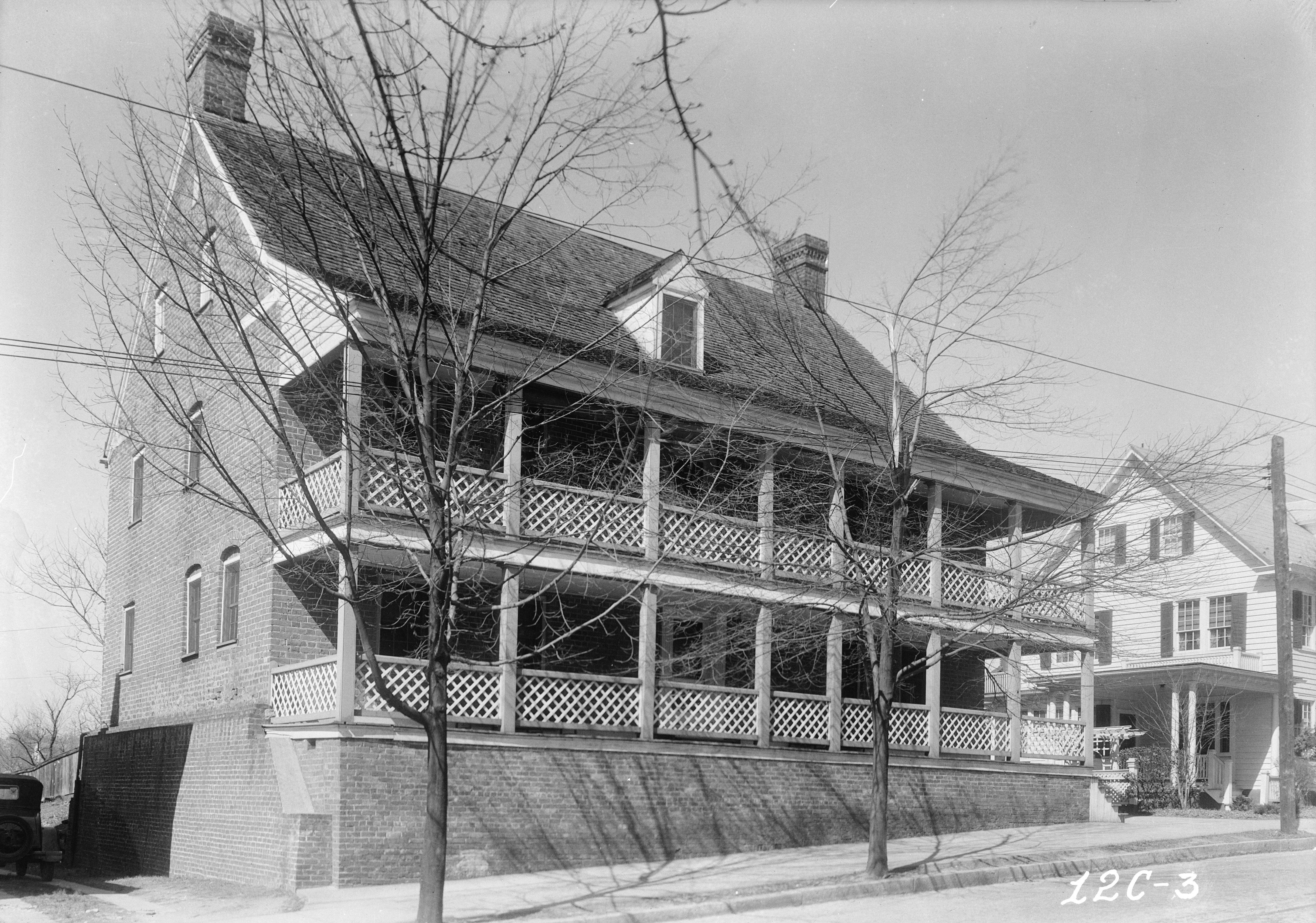 The Tavern (Salem Tavern) — 800 South Main Street, Winston-Salem, Forsyth County, North Carolina. 1934 photograph from the HABS—Historic American Buildings Survey images of North Carolina (cropped).